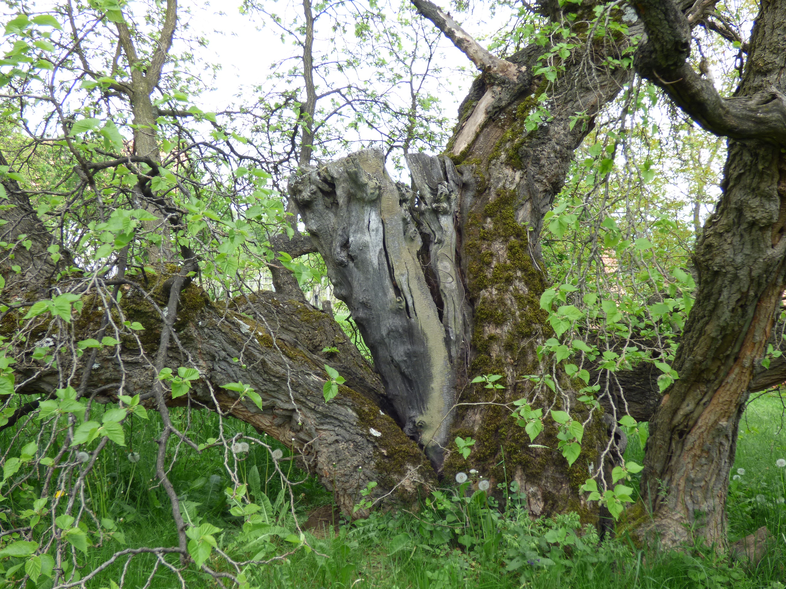 An old black mulberry tree in spring in Pukanec, Slovakia